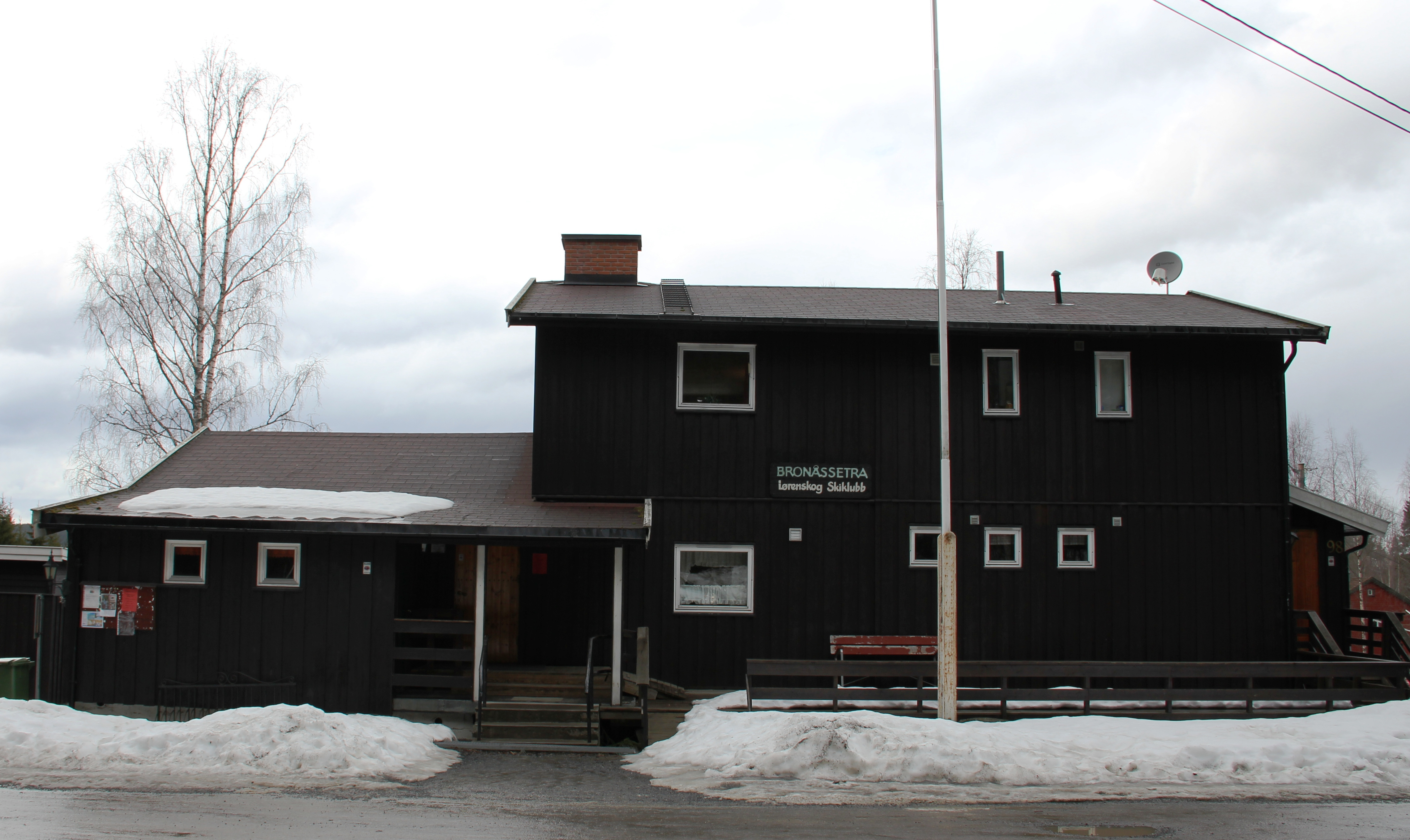 The club house of Lørenskog skiklubb.